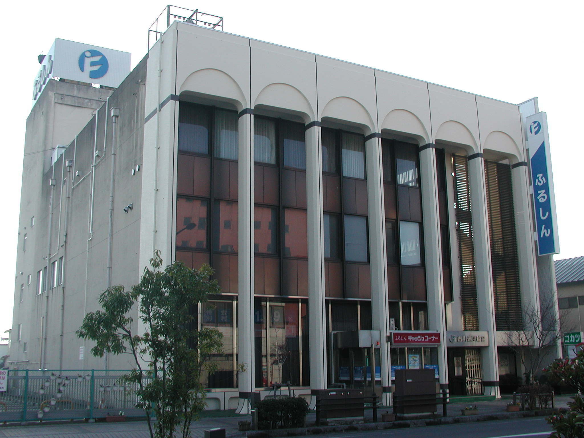 The Furukawa Credit Cooperative Head Shops